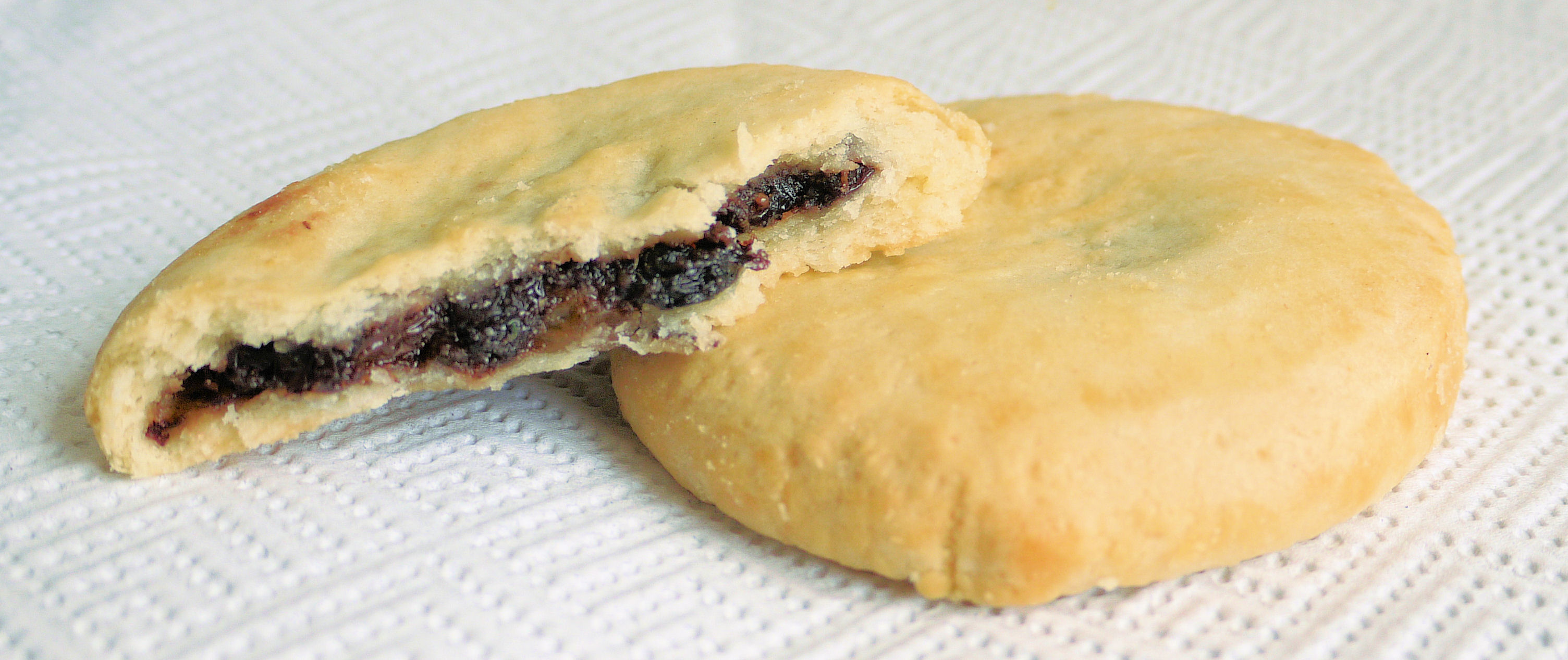 Commercially produced Chorley cakes